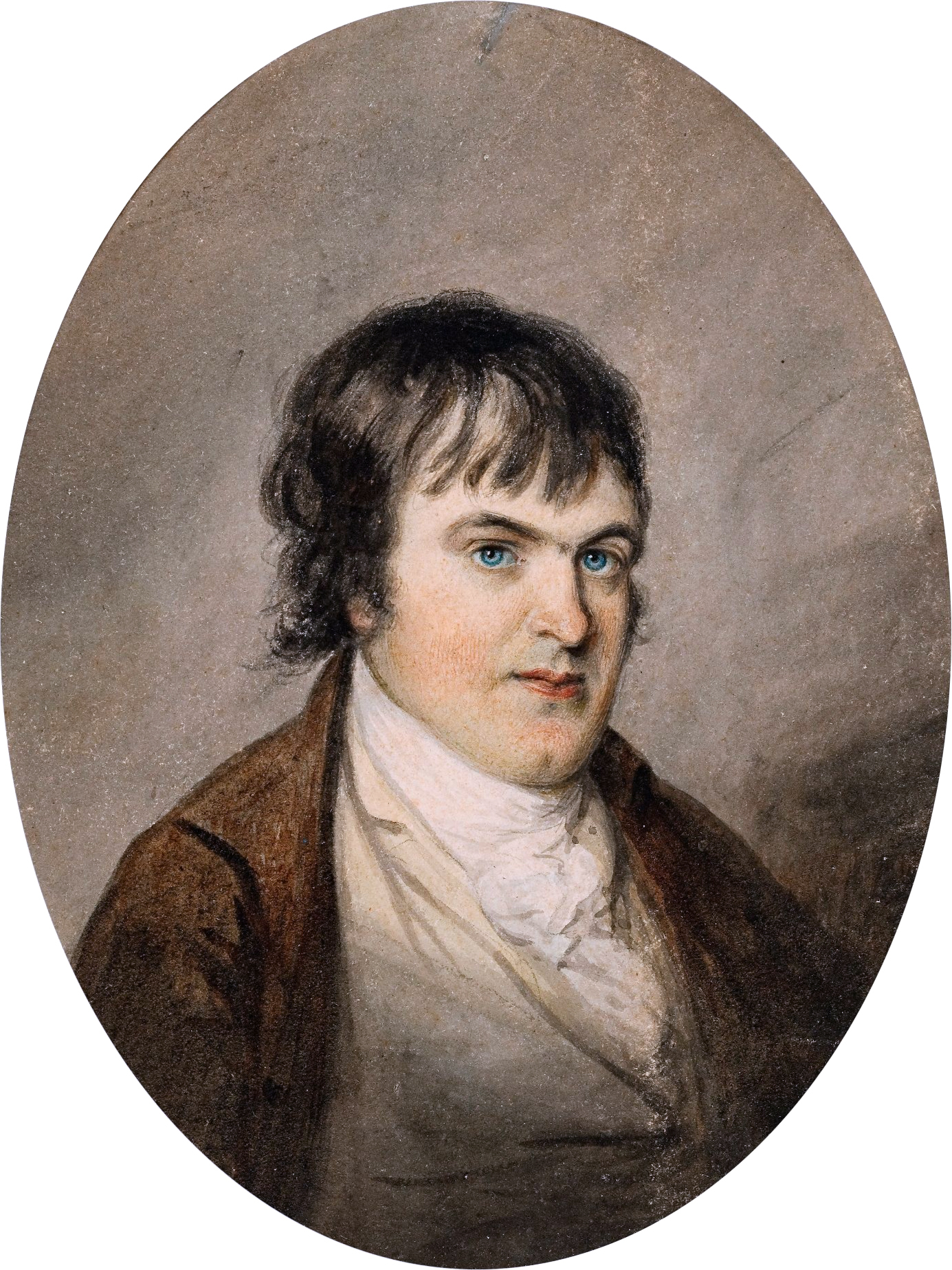 John Glover, presumed self portrait watercolour on paper 16.4 x 12.5 cm ca 1792